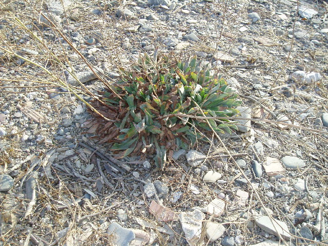 Limonium malacitanum at Baños del Carmen (Málaga, Andalucía, Spain)